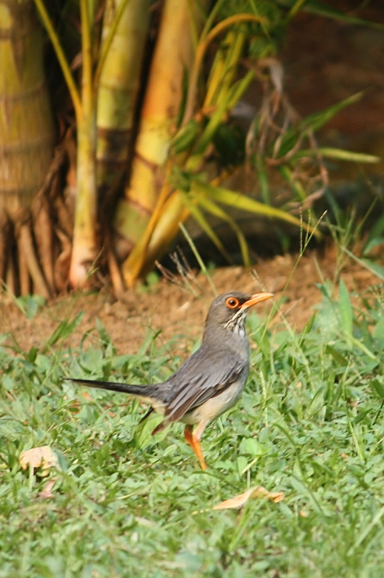 Red-legged Thrush (Turdus plumbeus). Brandy Manor (along the Brandy River), near Portsmouth Dominica.